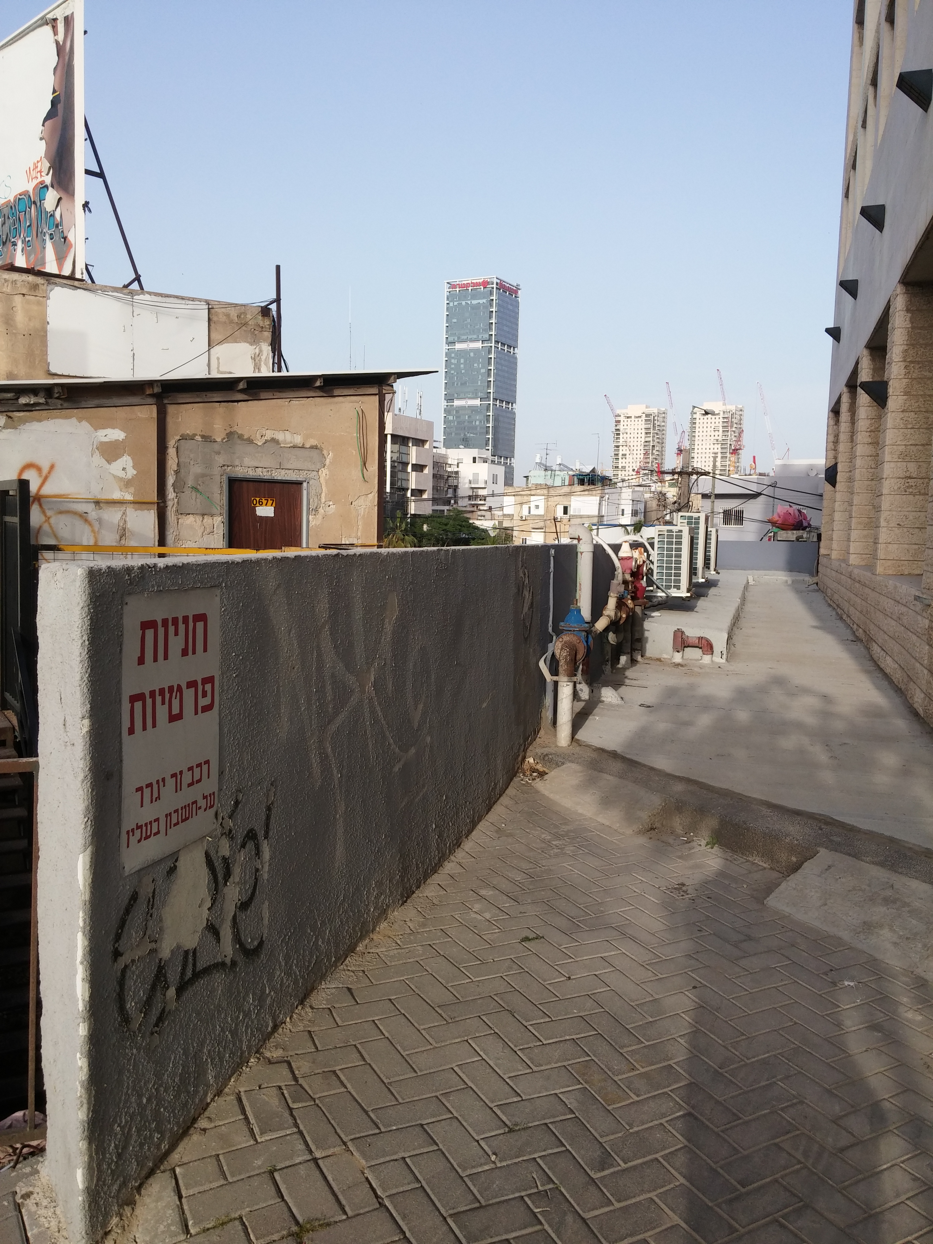 Electra Tower